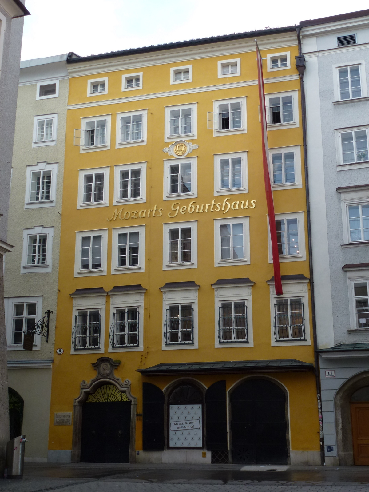 Austria, Salzburg, Getreidegasse